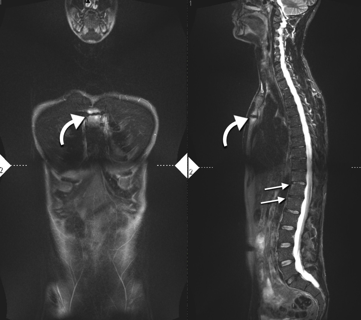 34-year old male patient with confirmed AS (duration of inflammatory back pain 13 years, BASDAI 4.9, HLA B27 positive). Inflammatory lesions of the anterior chest wall are shown in the manubriosternal joint (curved arrows) on coronal (left) and sagittal (right) STIR images. Inflammatory changes are seen in the lower thoracic spine and L1 (arrows).